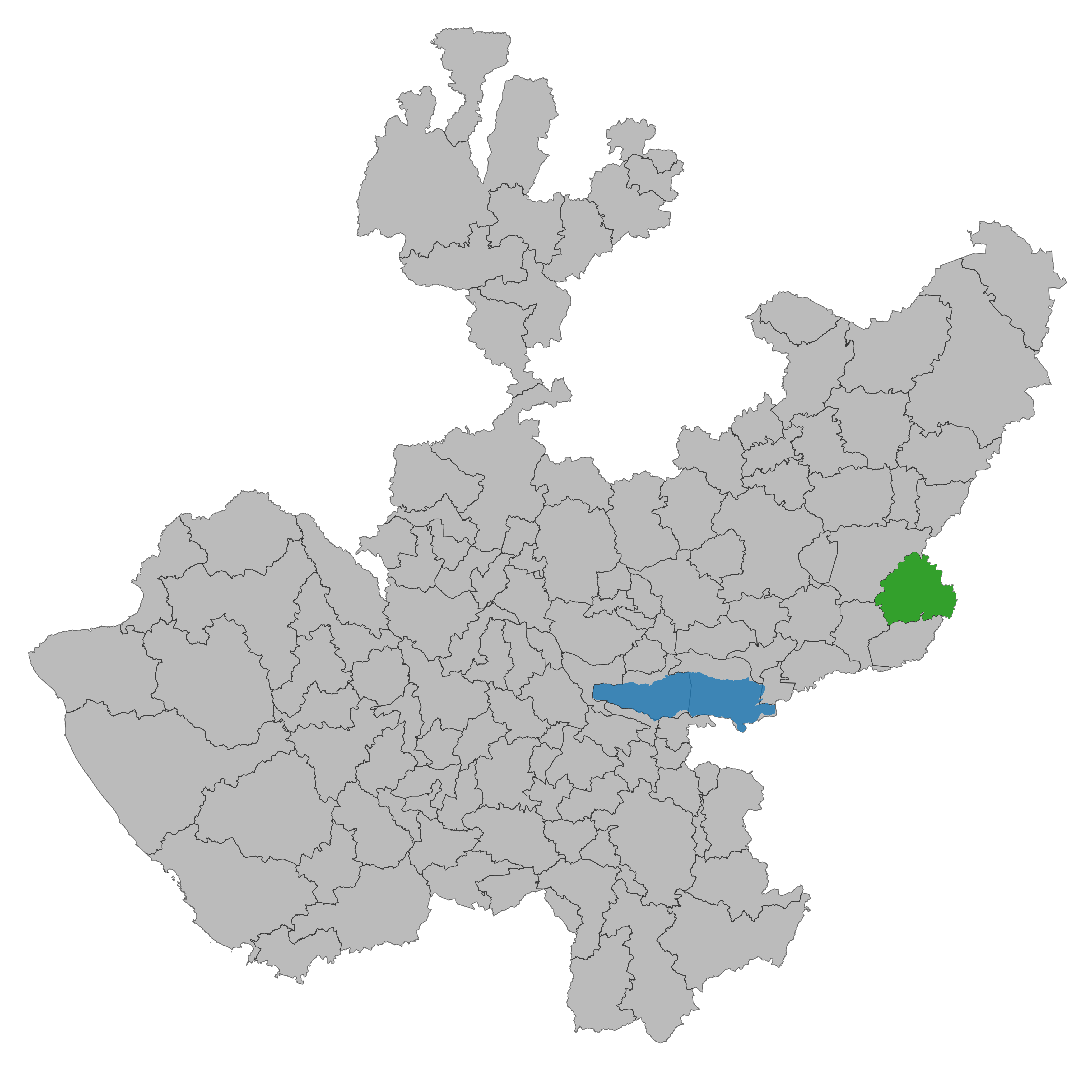 Municipality of Jalisco. Prepared with the software QGIS version 2.8.2 Wien & with information of SCINCE 2010 version 05/2013